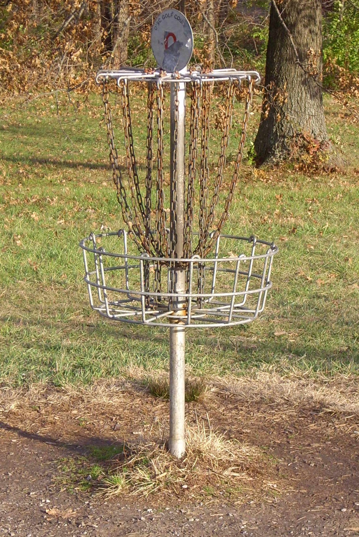 This photo is of a Disc Golf Basket at the Albert-Oakland Park in Columbia, MO (USA).